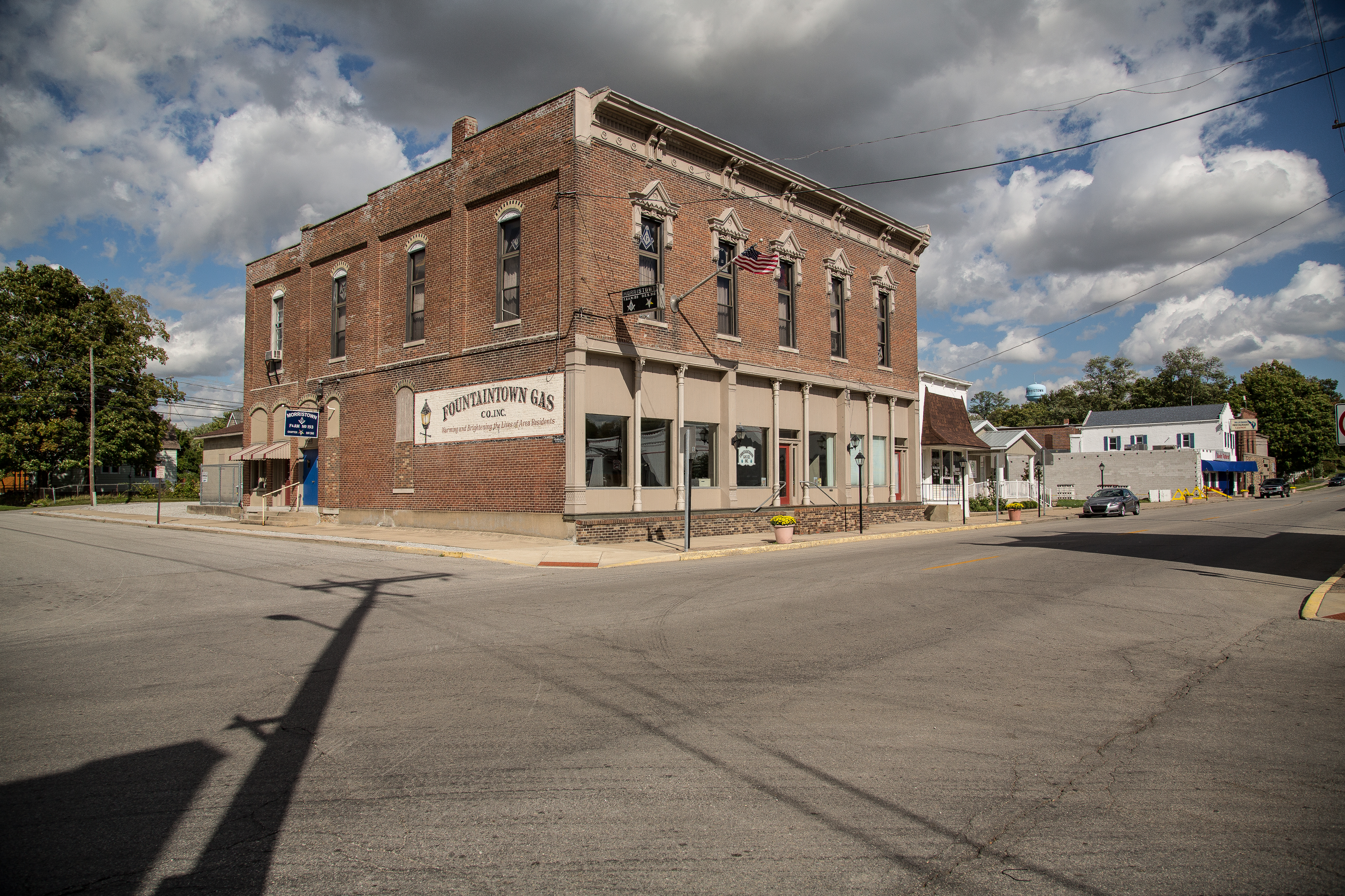 Photo from Small Town Indiana photo survey.